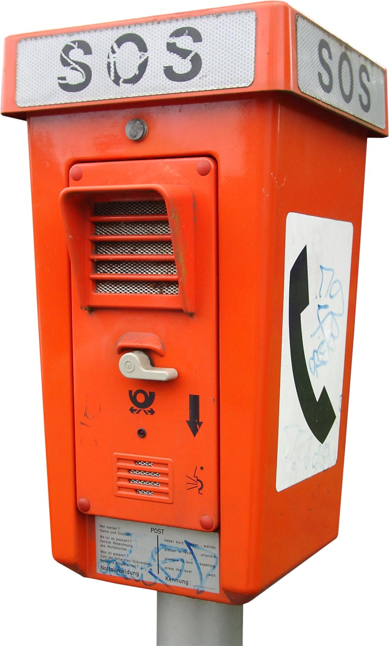 Emergency telephone.